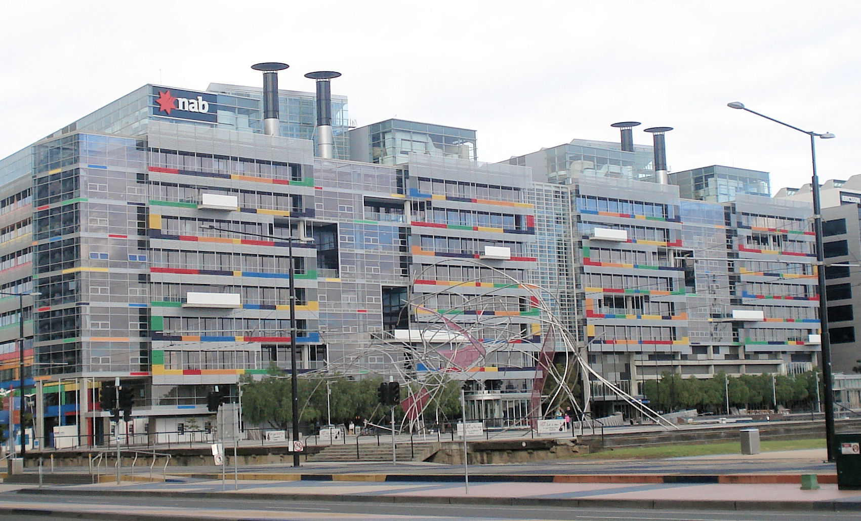 National Australia Bank, Docklands, Melbourne Office